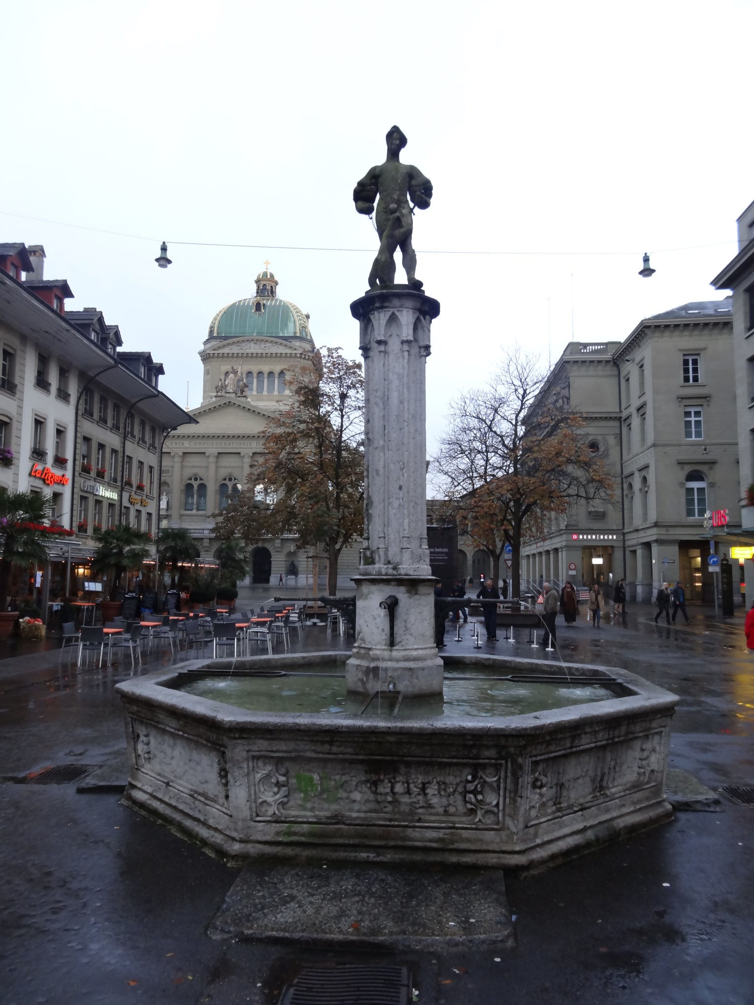 Berna